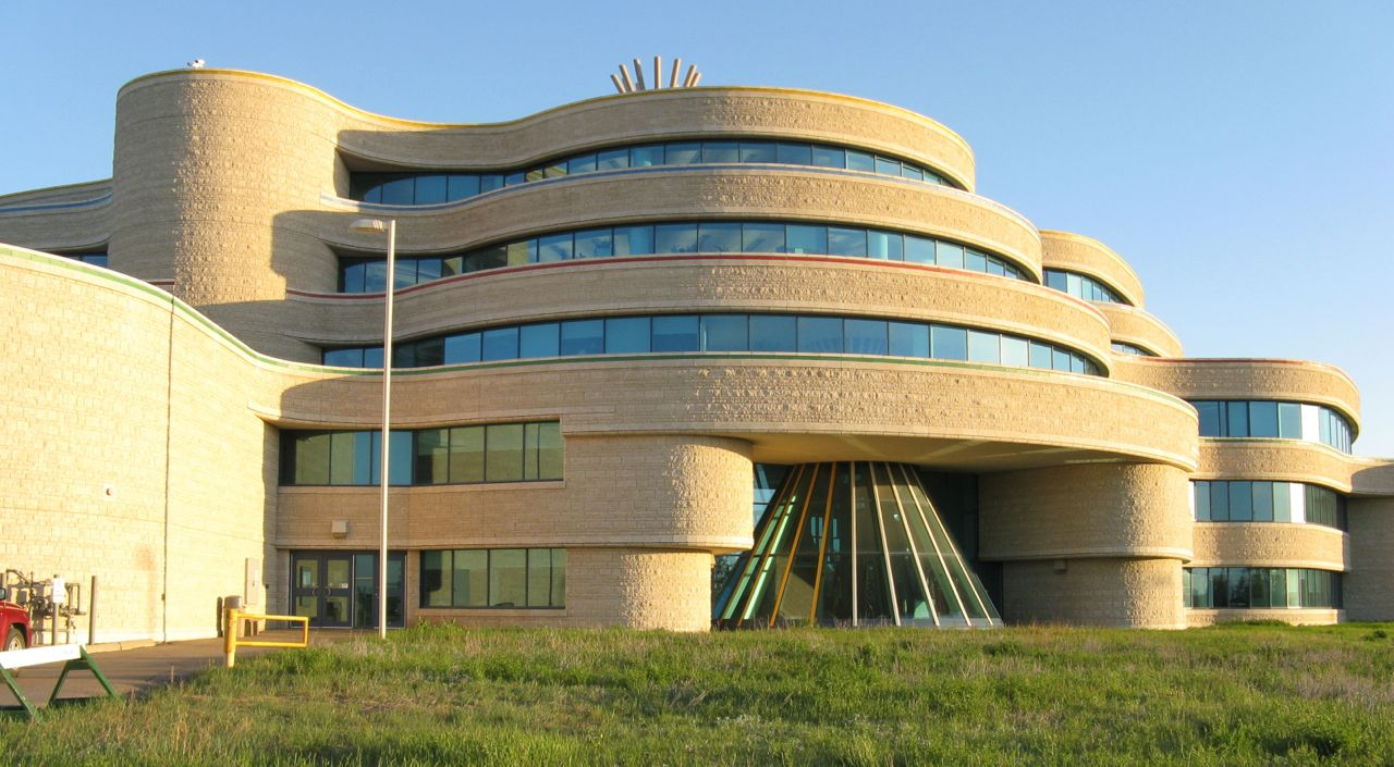 Regina, Saskatchewan